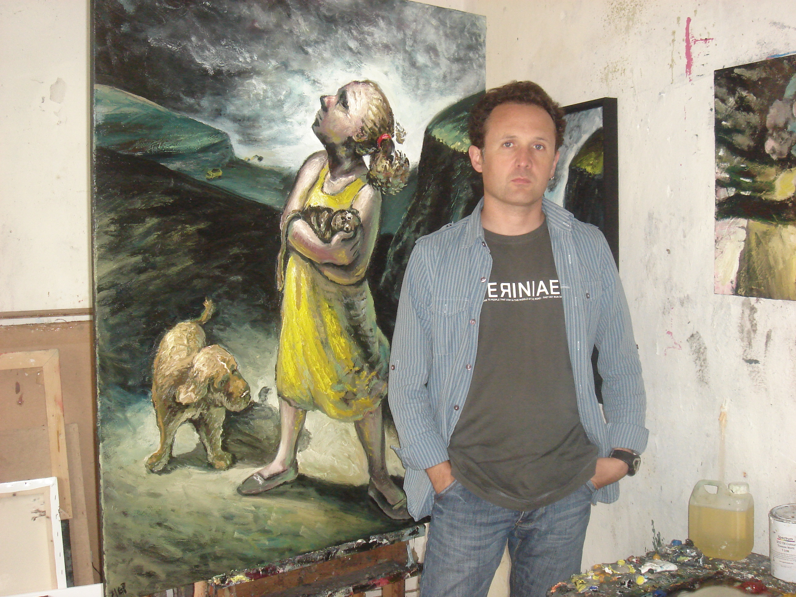 Picture of the artist in his studio